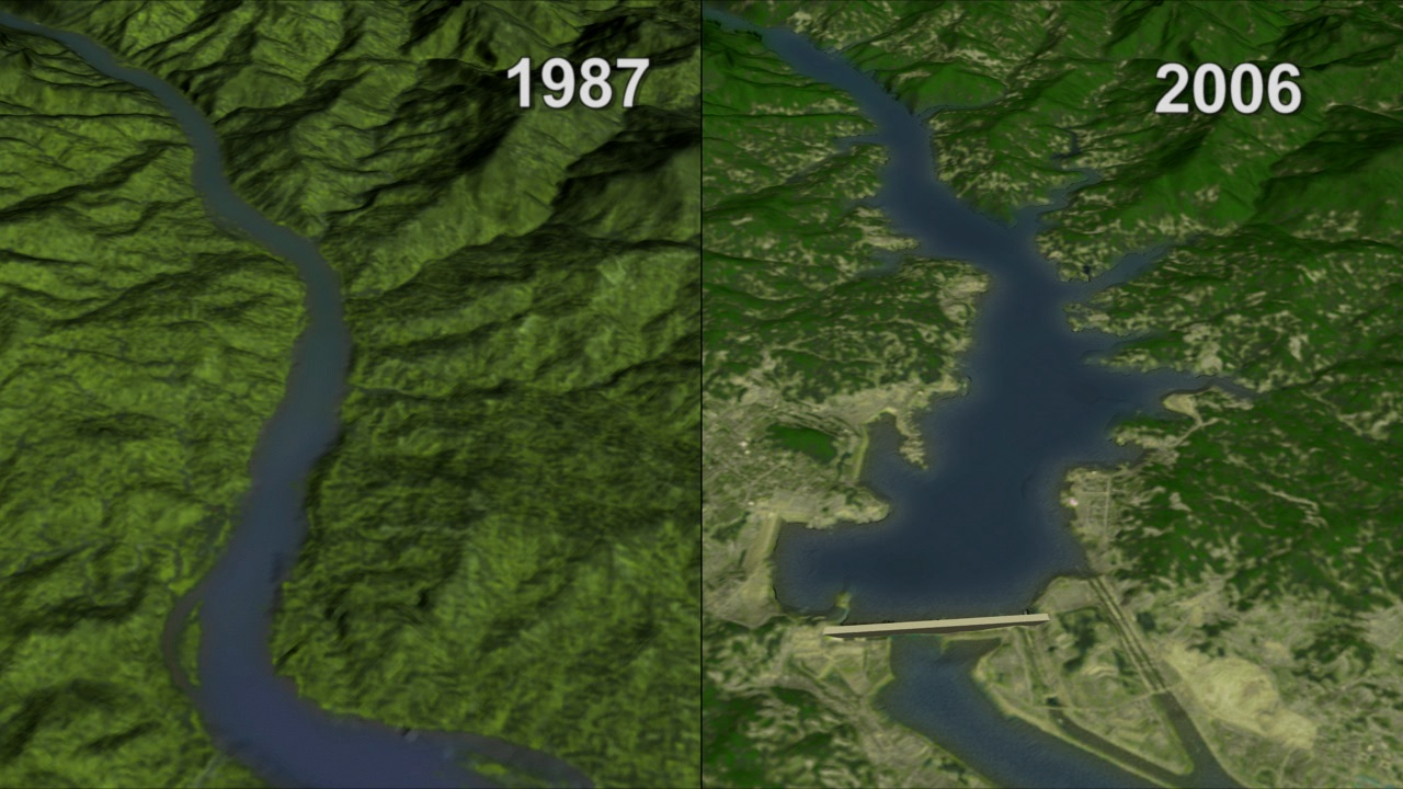 Landsat imagery combined with SRTM elevation data shows the change in the region of the Three Gorges Dam between 1987 and 2006.